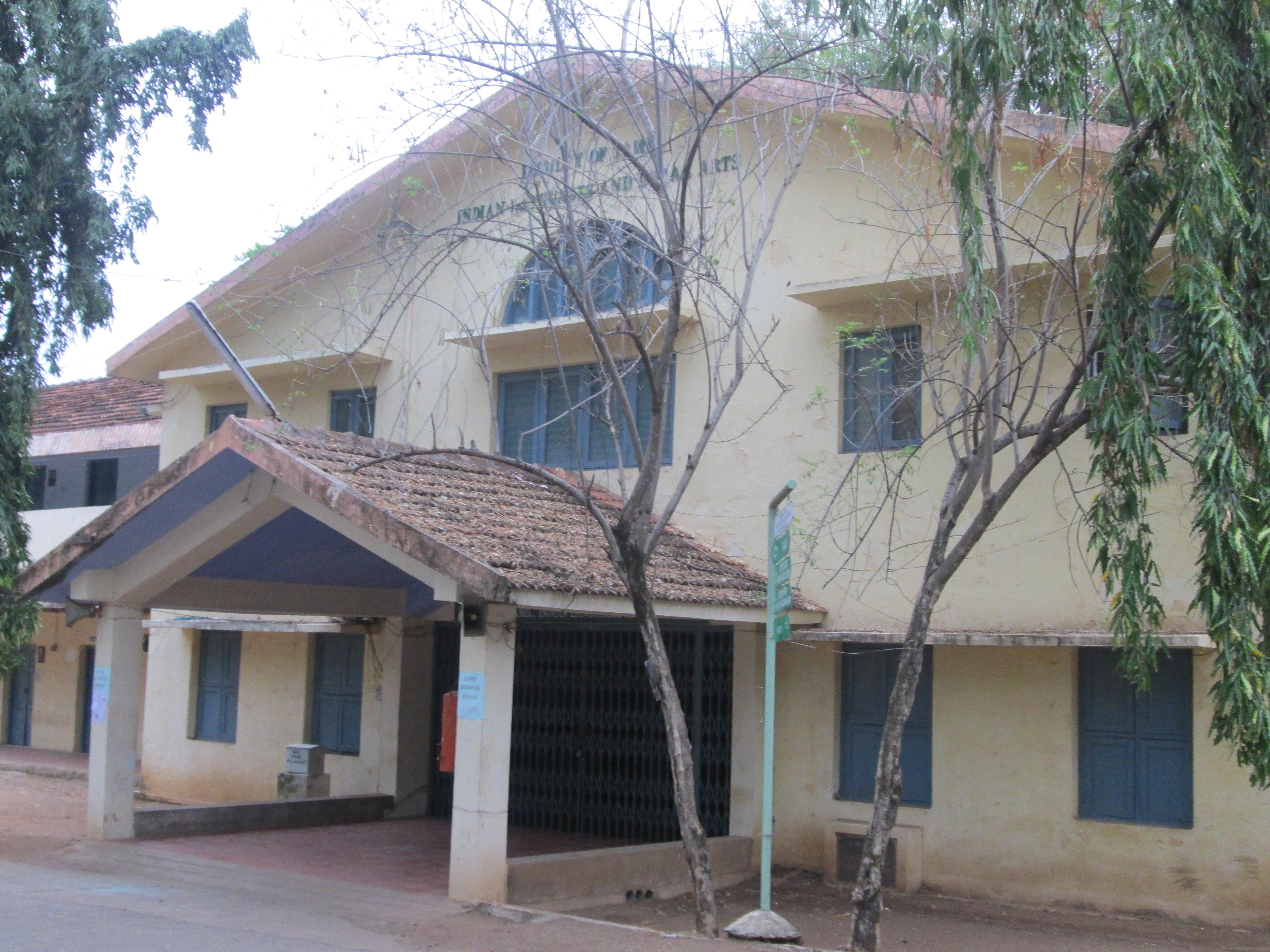 This is the Tamil department building of GRI.